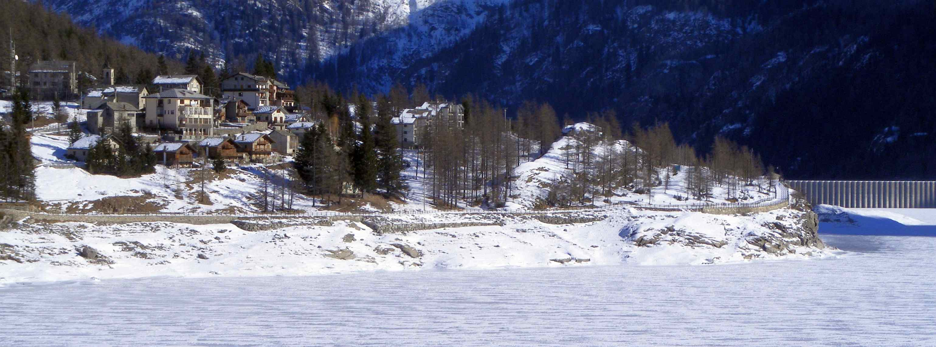 Ceresole Reale (TO, Italy): winter panorama